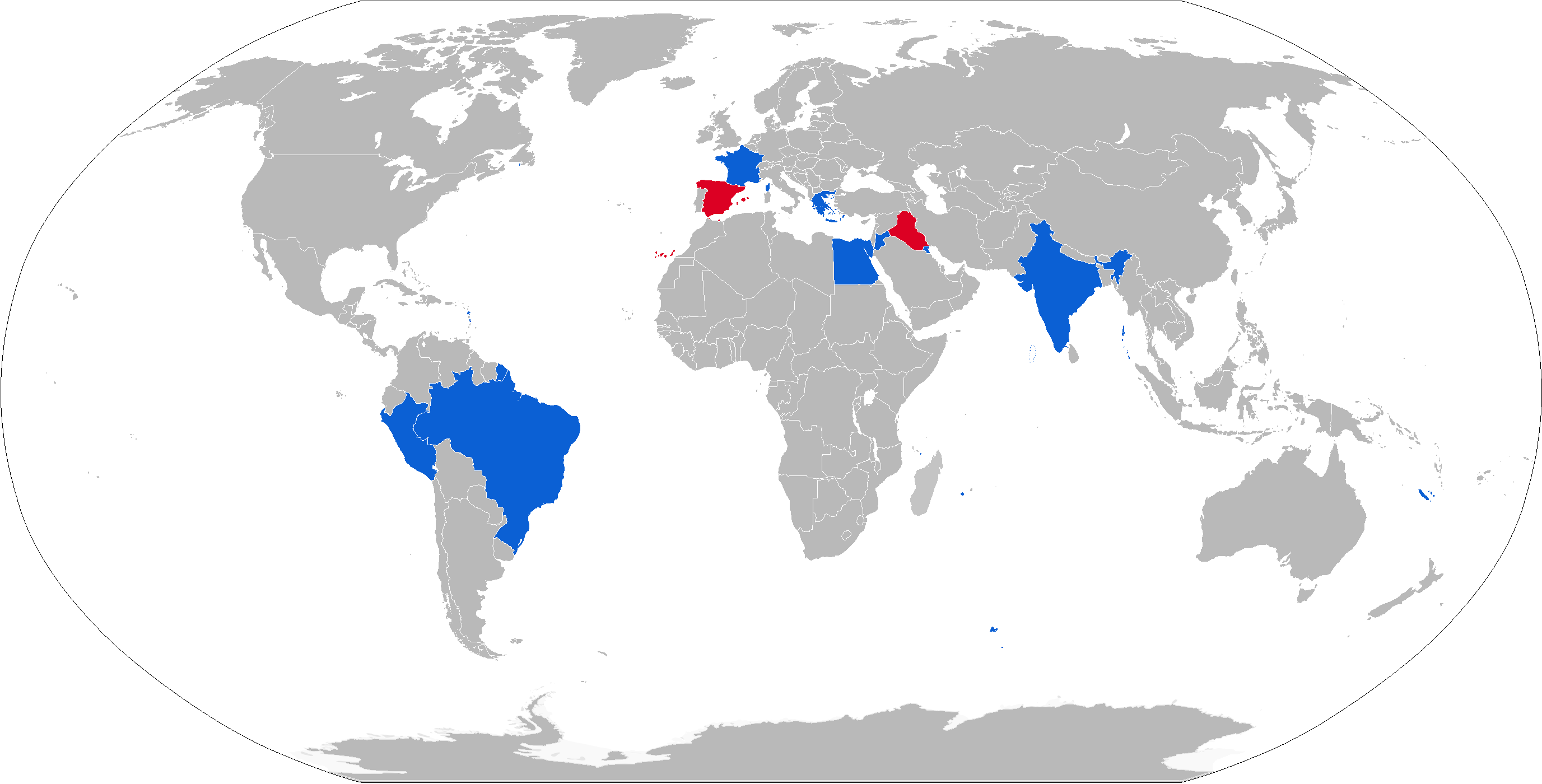 Map with Super 530 operators in blue with former operators in red